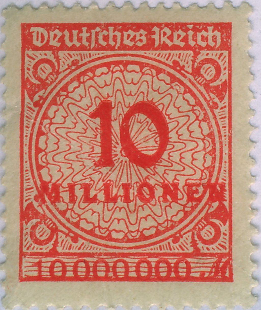 Stamp of the Weimar Republic inflation period, October 1923 issue, 10 millions Mark, Michel N°318A.